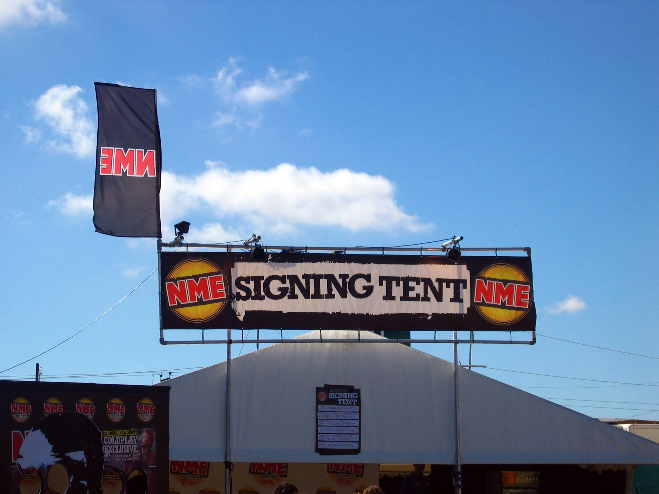 The NME signing tent at the 2005 Reading Festival. Taken by C Ford 28th August 05.